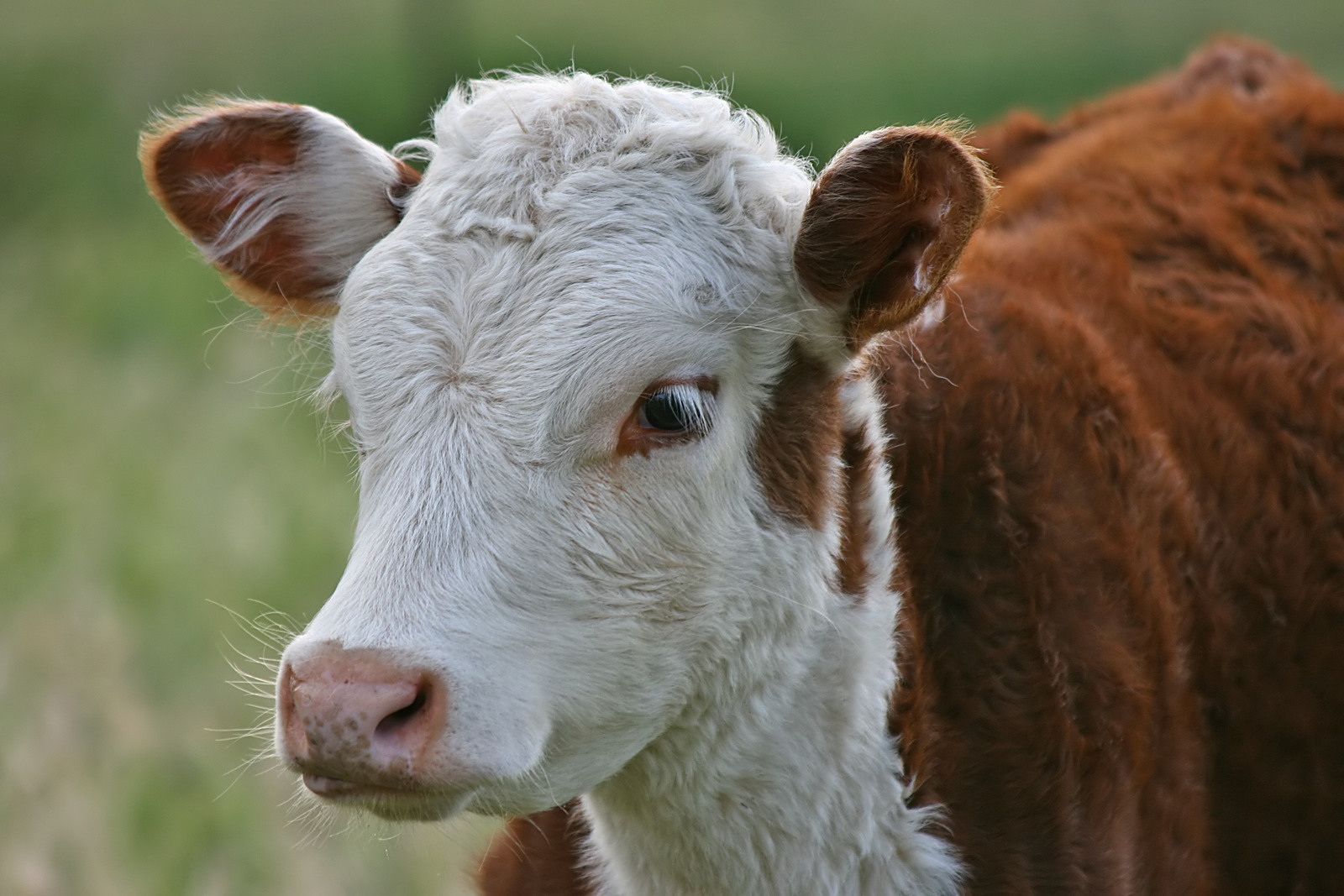 Portrait of an unmarked Hereford cattle calf (Bos taurus). Taken in Victoria, Australia.